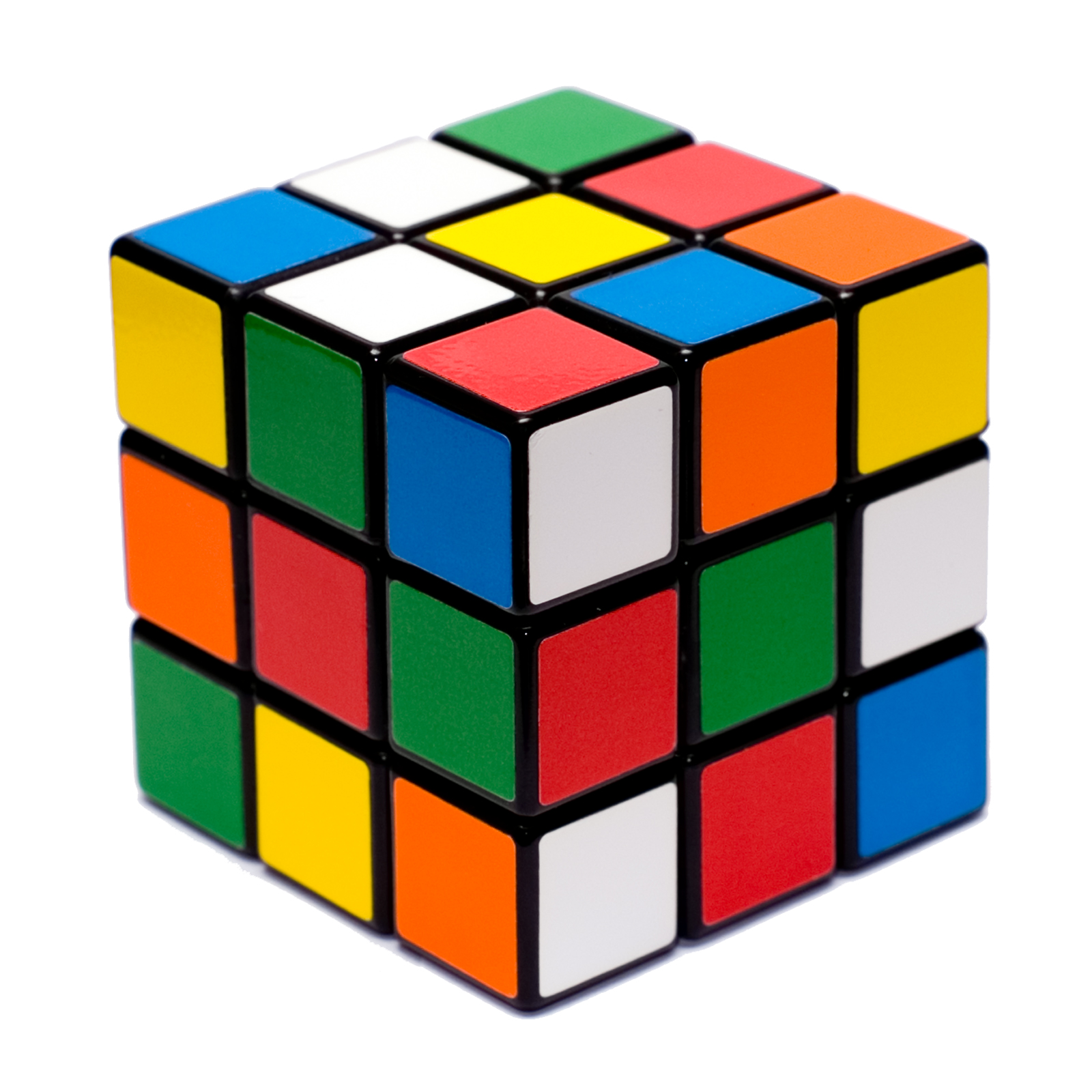 Rubik's Cube scrambled